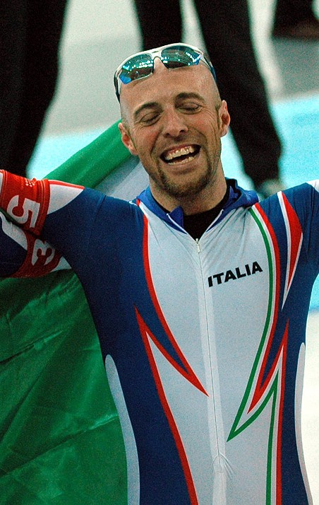 Ippolito Sanfratello celebrating Italy's gold in the Team Pursuit at the 2006 Winter Olympics in Torino.